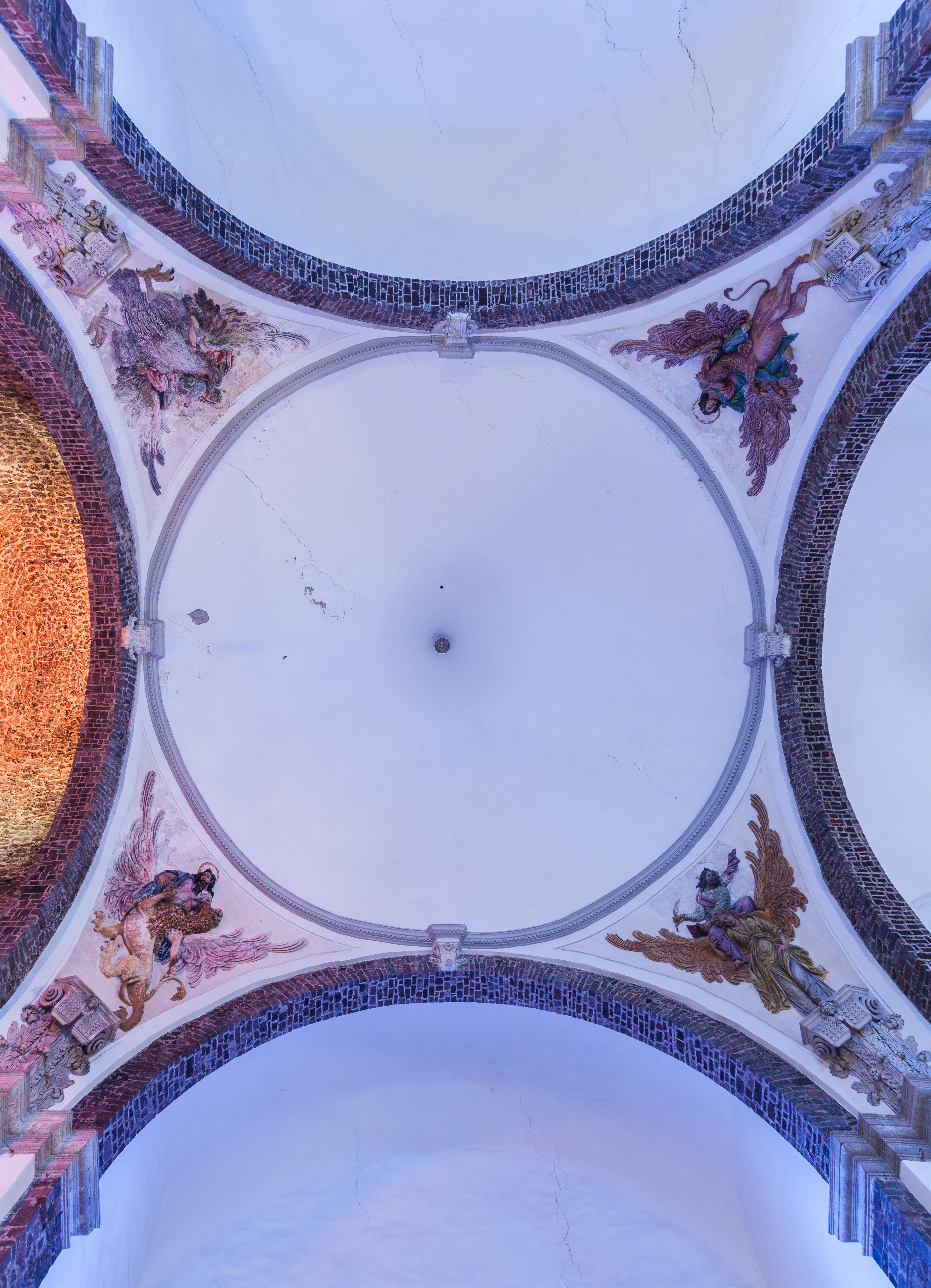 Church of Santiago Tlatelolco, Mexico City, Mexico - The four Evangelists